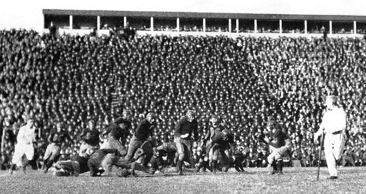 Photograph of Harry Kipke running for a substantial gain against the Quantico Marines at Ferry Field, 1923 This work is in the public domain because it was published in the United States between 1923 and 1963 and although there may or may not have been a copyright notice, the copyright was not renewed. Unless its author has been dead for the required period, it is copyrighted in the countries or areas that do not apply the rule of the shorter term for US works, such as Canada (50 pma), Mainland China (50 pma, not Hong Kong or Macao), Germany (70 pma), Mexico (100 pma), Switzerland (70 pma), and other countries with individual treaties. See Commons:Hirtle chart for further explanation. This work is in the public domain in the United States because it was published in the United States between 1923 and 1977 without a copyright notice. See this page for further explanation. Note that it may still be copyrighted in jurisdictions that do not apply the rule of the shorter term for US works (depending on the date of the author's death), such as Canada (50 p.m.a.), Mainland China (50 p.m.a., not Hong Kong or Macao), Germany (70 p.m.a.), Mexico (100 p.m.a.), Switzerland (70 p.m.a.), and other countries with individual treaties.